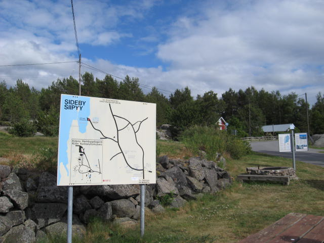 Kilen harbour in village of Sideby, Kristinestad, Finland.